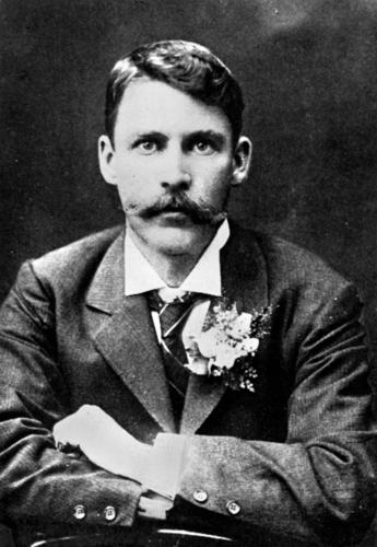 Will H. OGILVIE (1869--1963), Scottish-Australian bush poet, balladeer, and Border poet. Scottish-born poet and author who immigrated to Australia in 1889 and worked as a station hand and a horsebreaker. In 1901 he returned to Scotland and became a regular contributor to Punch. He wrote books of Scottish prose and verse and his bush experience in Australia is described in My Life in the Open, written in 1908. Displayed in a March 1901 Melbourne newspaper.[1]